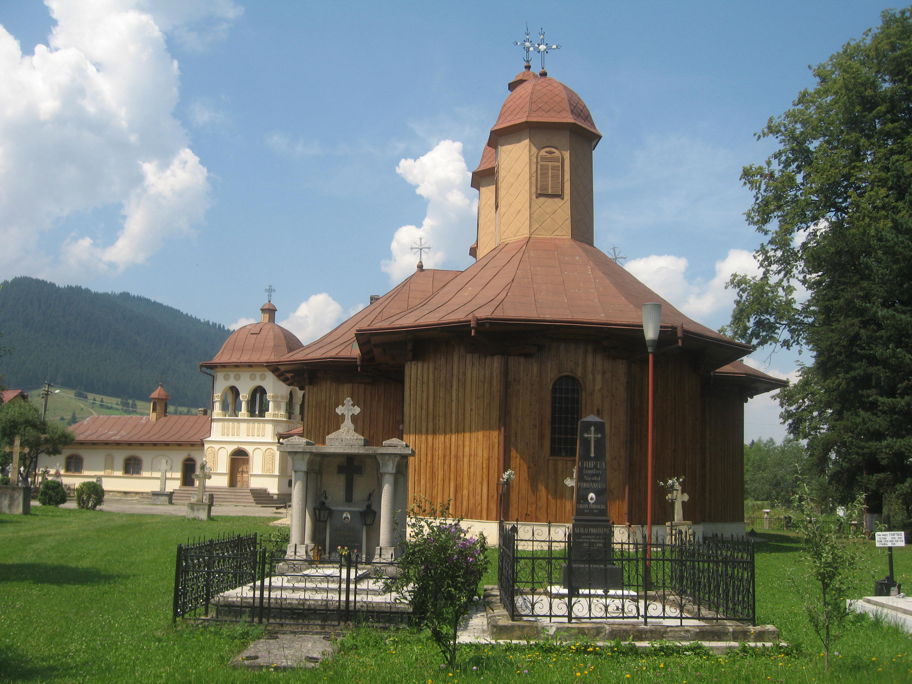 Wooden church in Câmpulung Moldovenesc, Romania